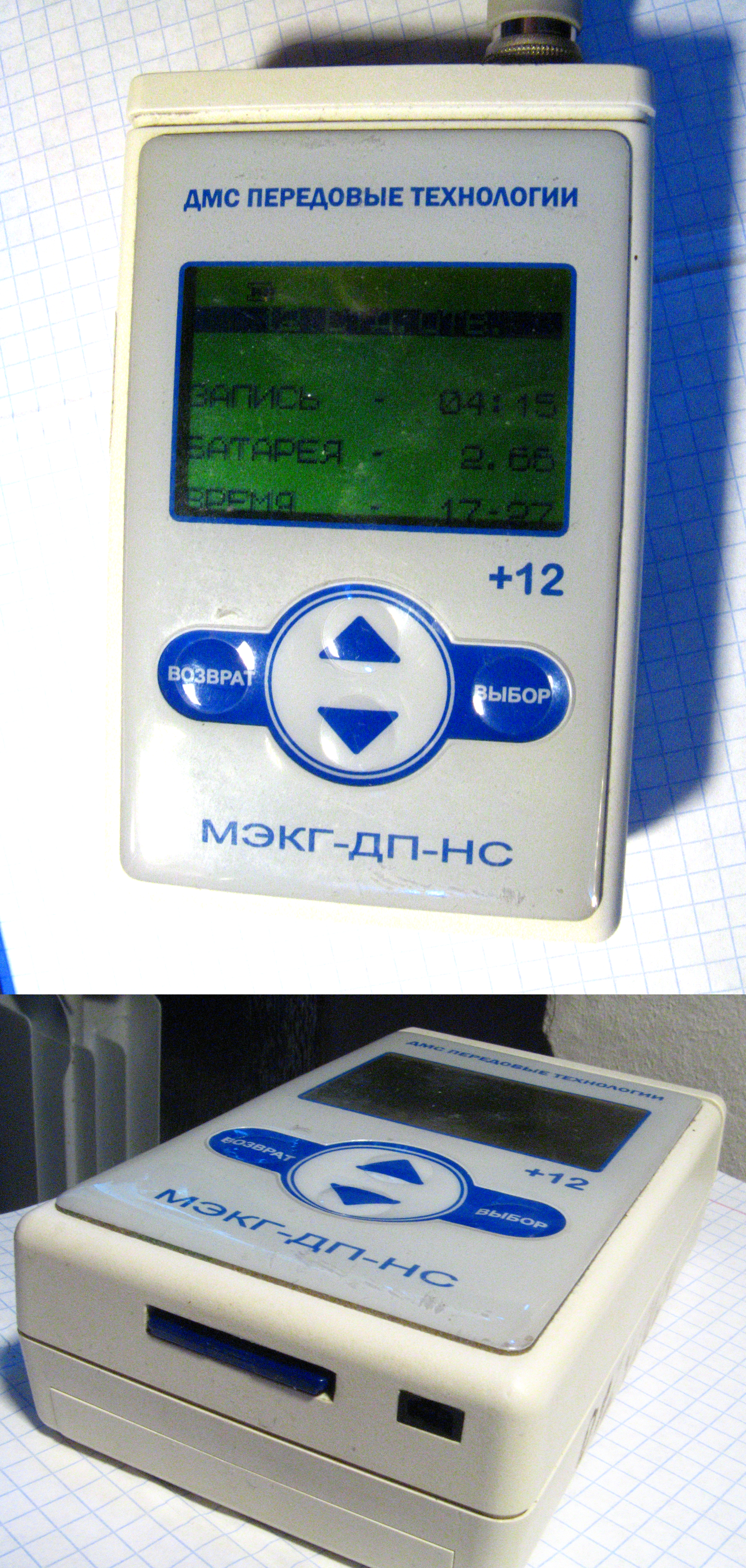 The device for Holter monitor.